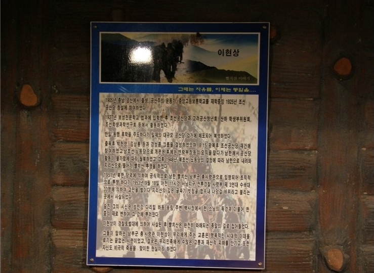 Lee, Hyun-Sang (이현상 약력)